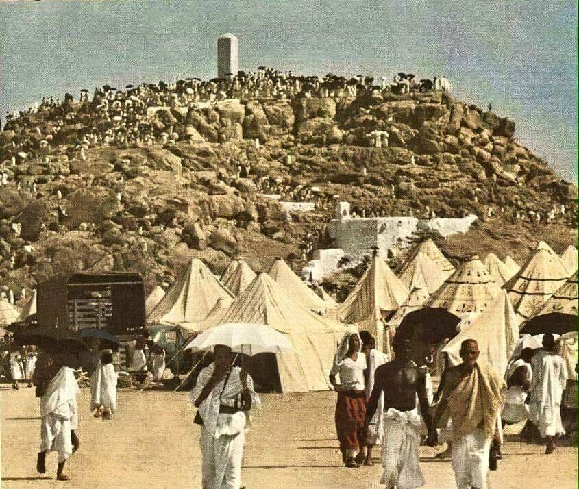 Hajj 1965